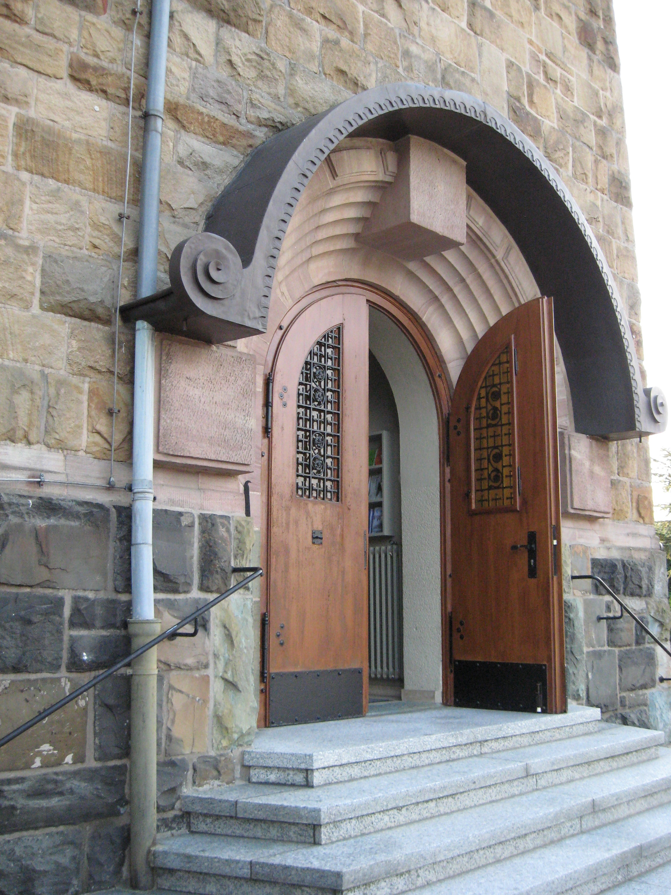 The entrance of the Protestant Church in Wilnsdorf.